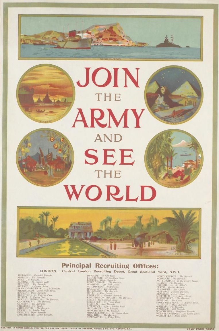 Join the Army and See the World whole: two images are positioned across the top edge and in the lower third, with four circular images positioned in the centre right, upper right, centre left and upper left, all held within green and yellow borders. The title is separate and positioned down the centre, in red and in brown. The text is separate and positioned in the lower quarter, in brown. Further text is integrated and positioned beneath each image as a caption, in brown. All set against a white background and held within a green border. image: the upper image is a depiction of the Rock of Gibraltar, with Royal Navy and merchant ships at sea. The lower image is of a temple set in the Burmese jungle. The four circular images also depict scenes from across the world: warships entering a harbour in Malta, two pyramids and the Sphinx in Egypt, a night-time scene in Hong Kong, and a Jamaican village by the sea. text: GIBRALTAR JOINT THE ARMY AND SEE THE WORLD MALTA EGYPT HONG KONG JAMAICA F.H.M BURMA Principal Recruiting Offices: [a list of addresses of Recruiting Offices] EST. 4027. (A FORMS B2534/5) PRINTED FOR H.M. STATIONERY OFFICE BY JOHNSON, RIDDLE AND CO., LTD., LONDON, S.E1. ARMY FORM B2534.